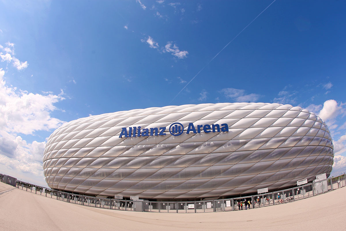 Allianz Arena, Munich